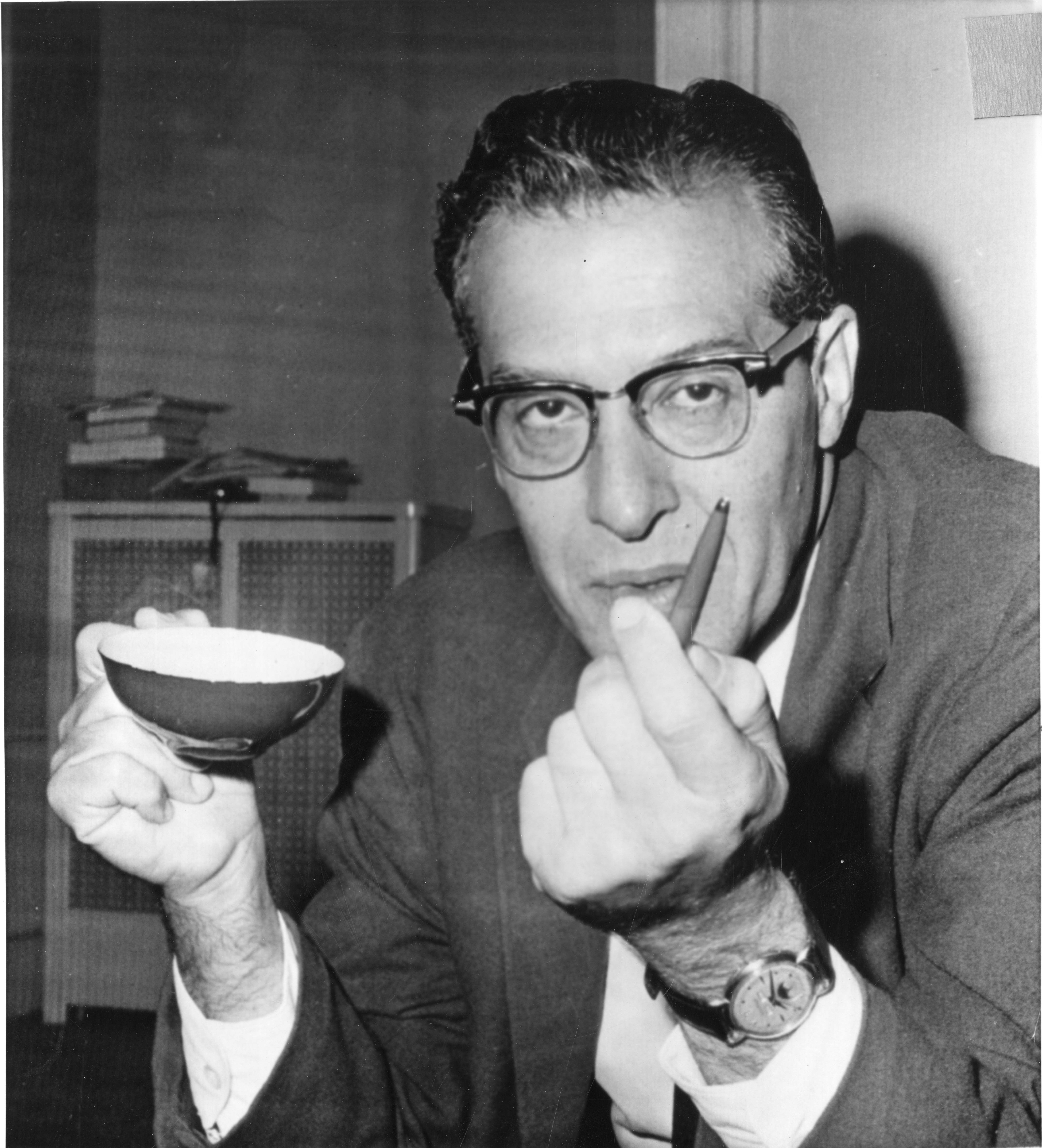 Creator: United Press International Subject: Schwinger, Julian 1918-1994 Type: Black-and-white photographs Date: 1965 October 21, 1965 Topic: Physics Nobel Prizes Local number: SIA Acc. 90-105 [SIA2009-2821] Summary: Harvard University professor Julian Schwinger (1918-1994), winner of the 1965 Nobel Prize in Physics, is shown in his Belmont home holding a ballpoint pen. The caption states that the Professor said, "his laboratory is his ball point pen." Cite as: Acc. 90-105 - Science Service, Records, 1920s-1970s, Smithsonian Institution Archives Persistent URL: Repository:Smithsonian Institution Archives View more collections from the Smithsonian Institution.